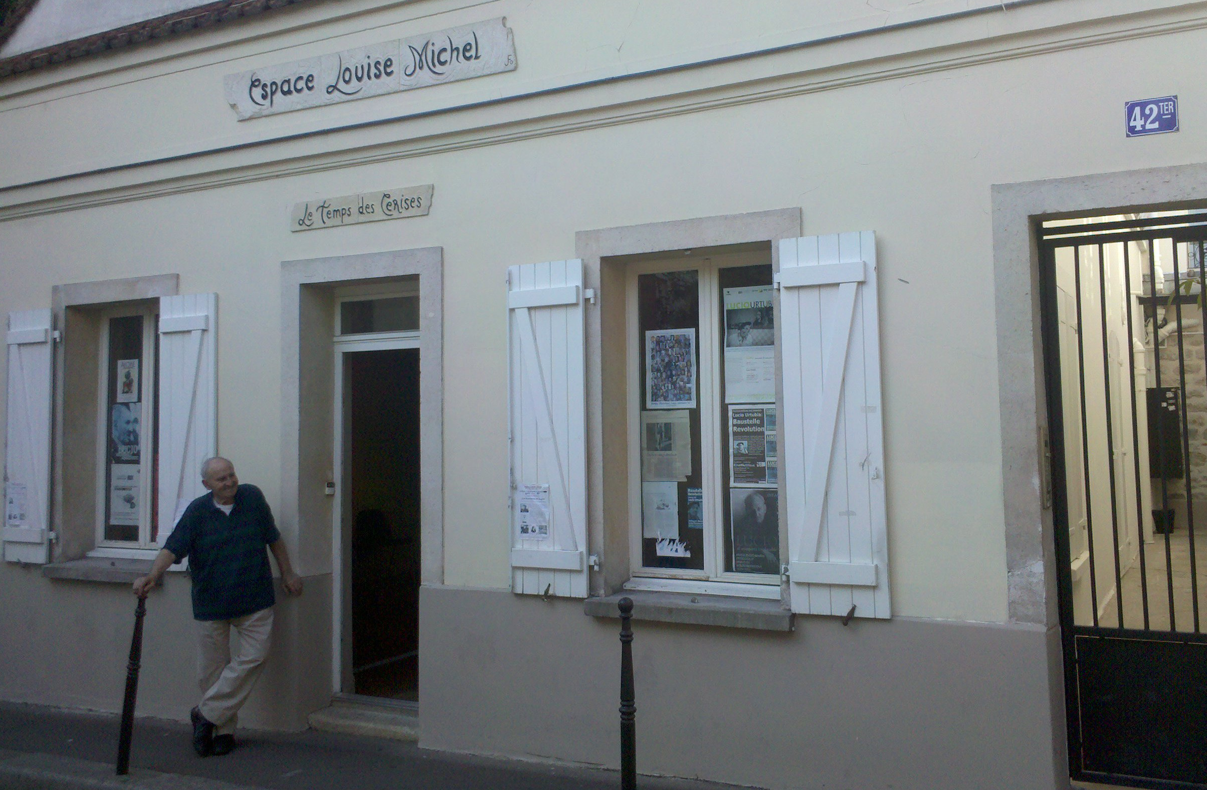 Lucio Urtubia Jiménez in front of the Espace Louise Michel